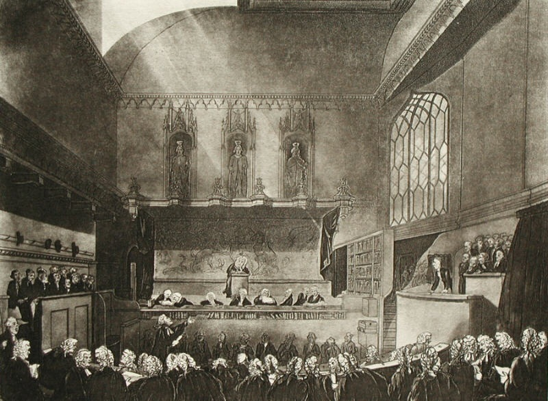 An image of the Court of Kings Bench. The original picture was by Thomas Rowlandson; J. Bluck later engraved the picture.[1]